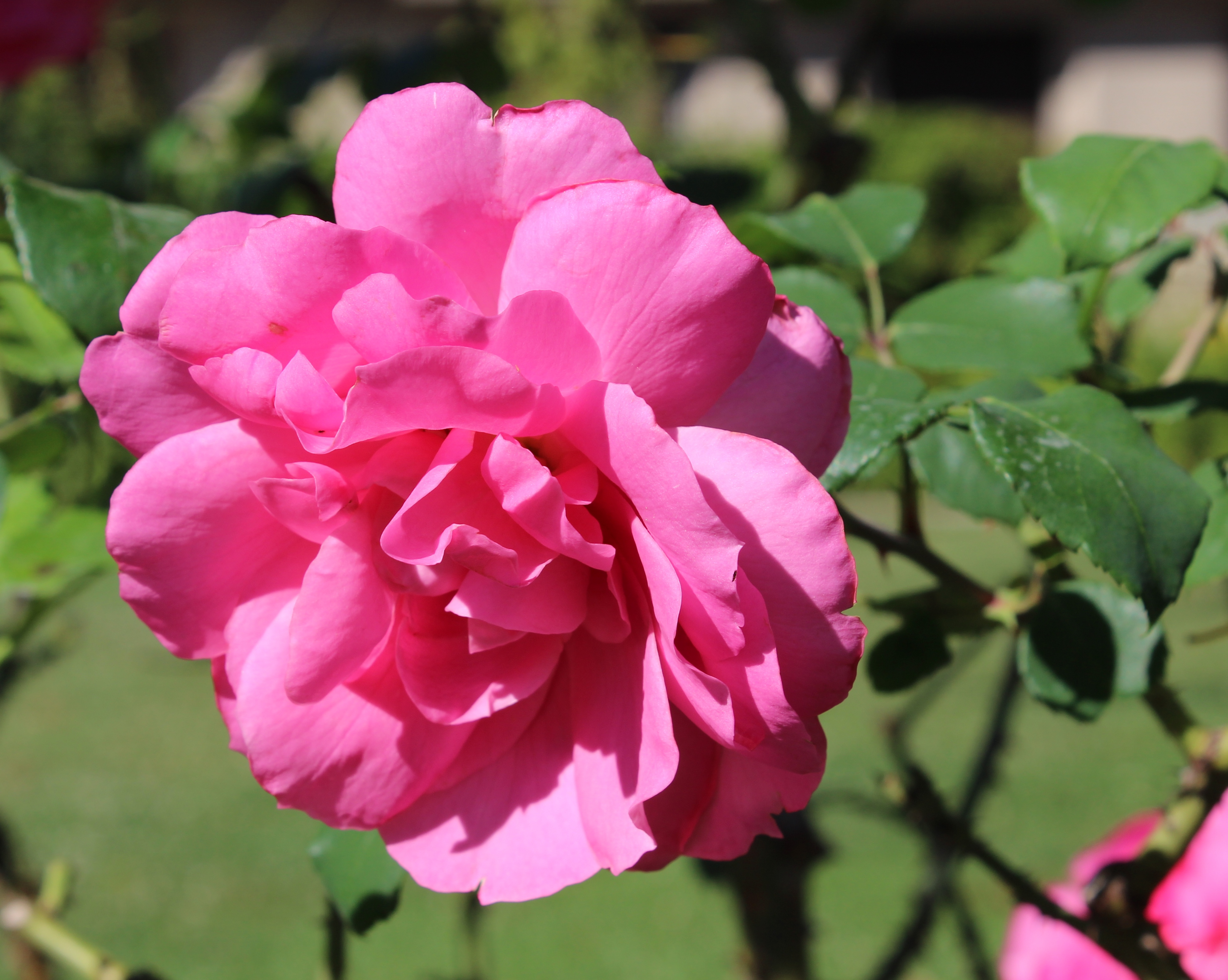 Rosa 'Sylvie Vartan' in thein Grenoble. Identified by sign.